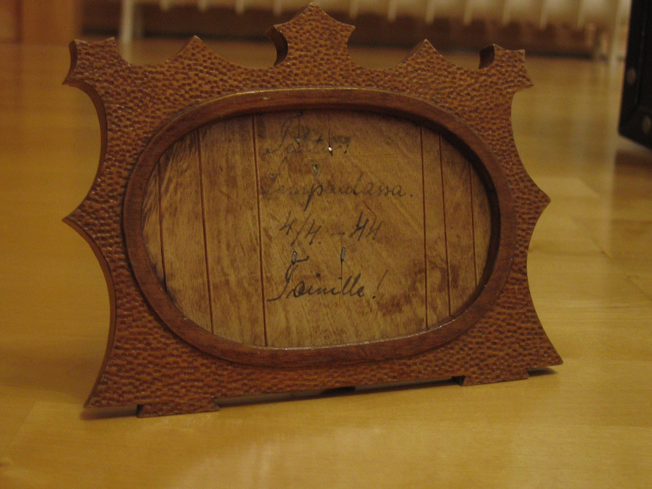 Photo frame crafted during the second world war by a Finnish soldier.